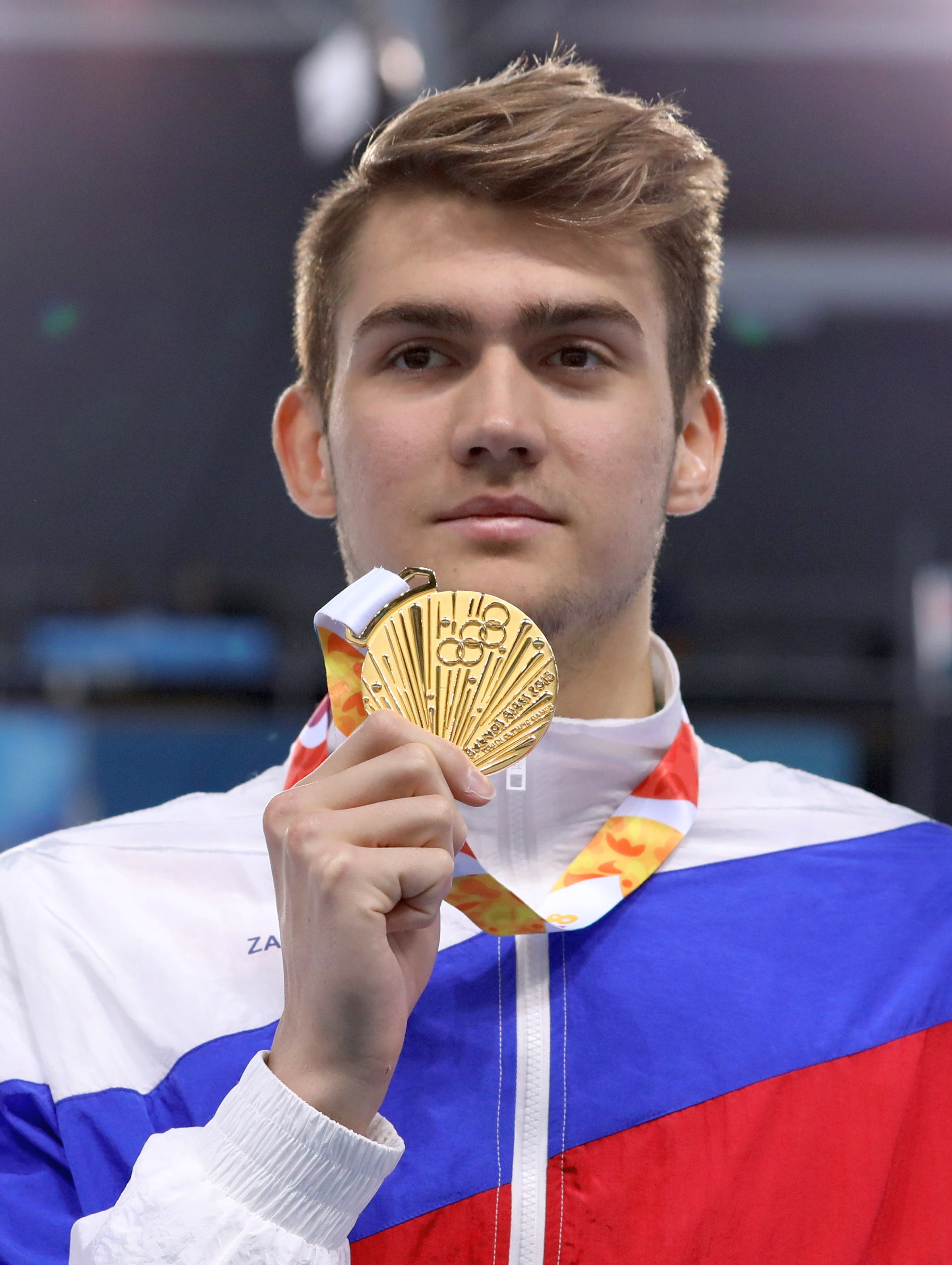 Boys' Swimming, 50 m Backstroke Final at the 2018 Summer Youth Olympics in Buenos Aires at the 10th October 2018